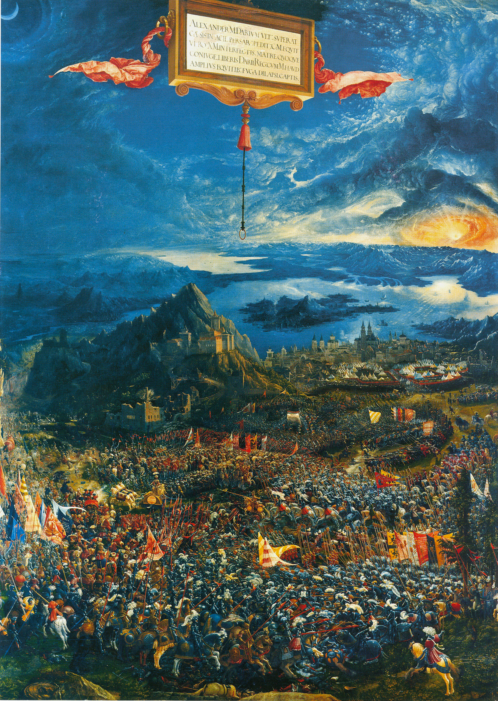 Battle of Alexander the Great against Persian King Darius